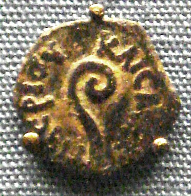 Bronze_coin_of_Pontius_Pilate_Jerusalem_mint_26_36_AD